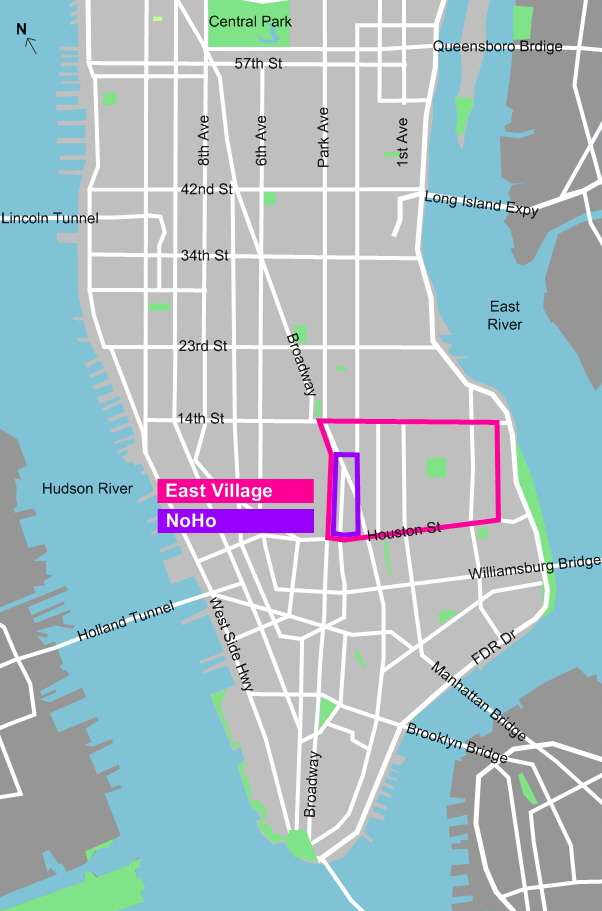 location map of the East Village, Manhattan, New York City